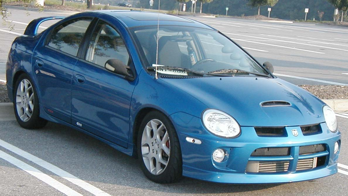 2003-2005 Dodge SRT-4 photographed in USA.